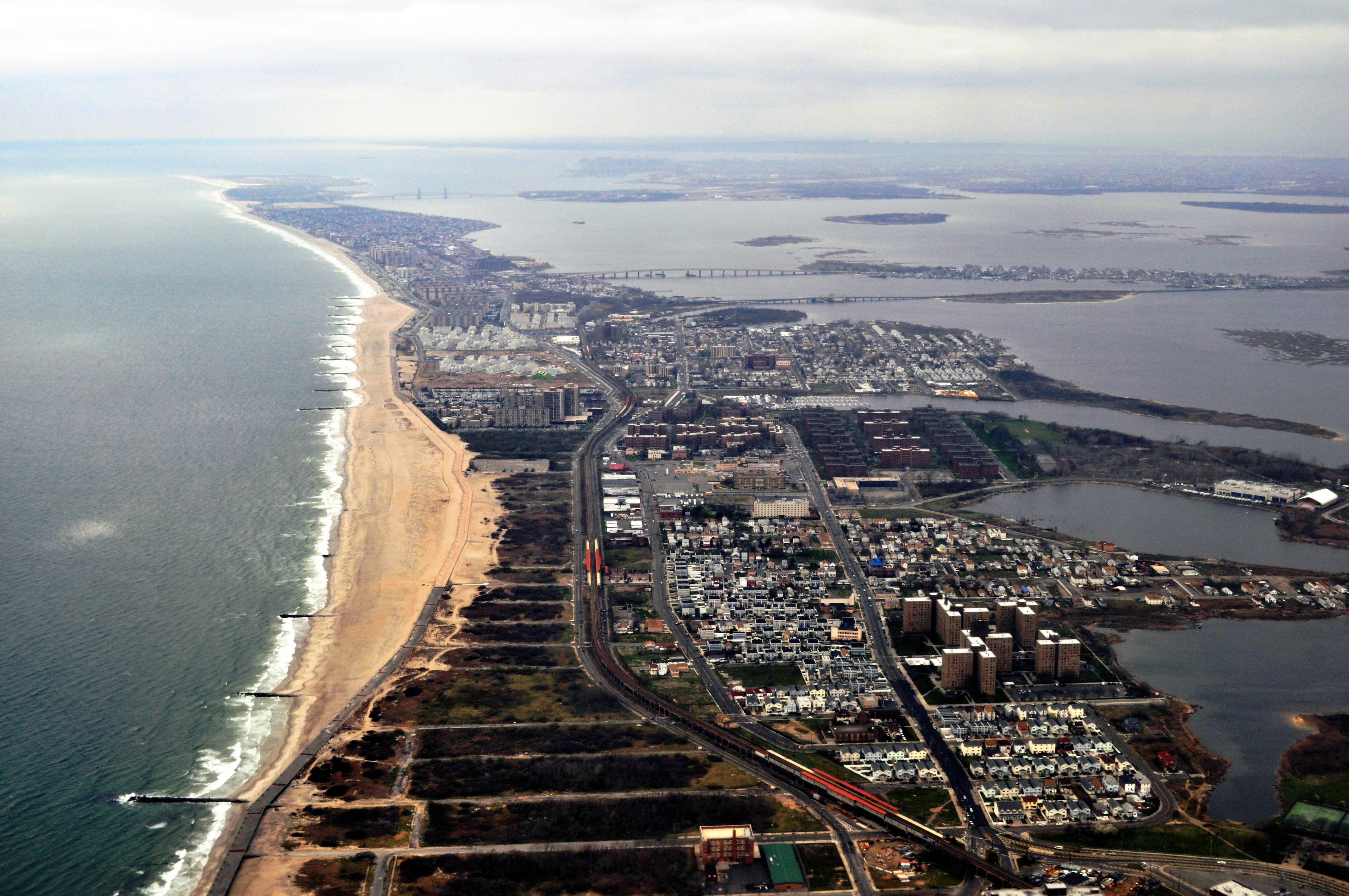 Aerial view of Rockaway, Queens, New York